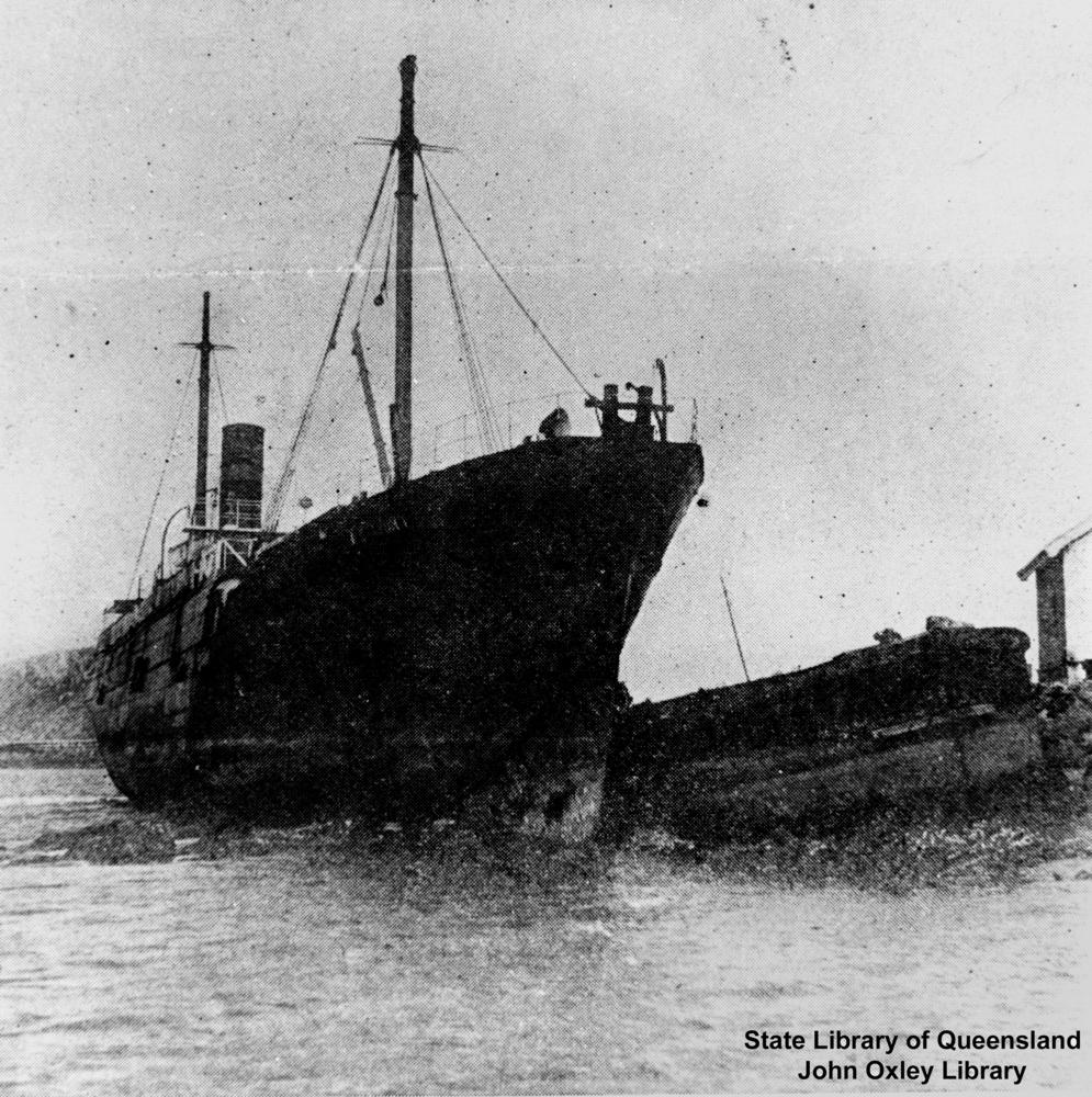 Alexandra (ship). The steamer Alexandra blown on to rocks at Townsville by cyclone Leonta, 9 March 1903.